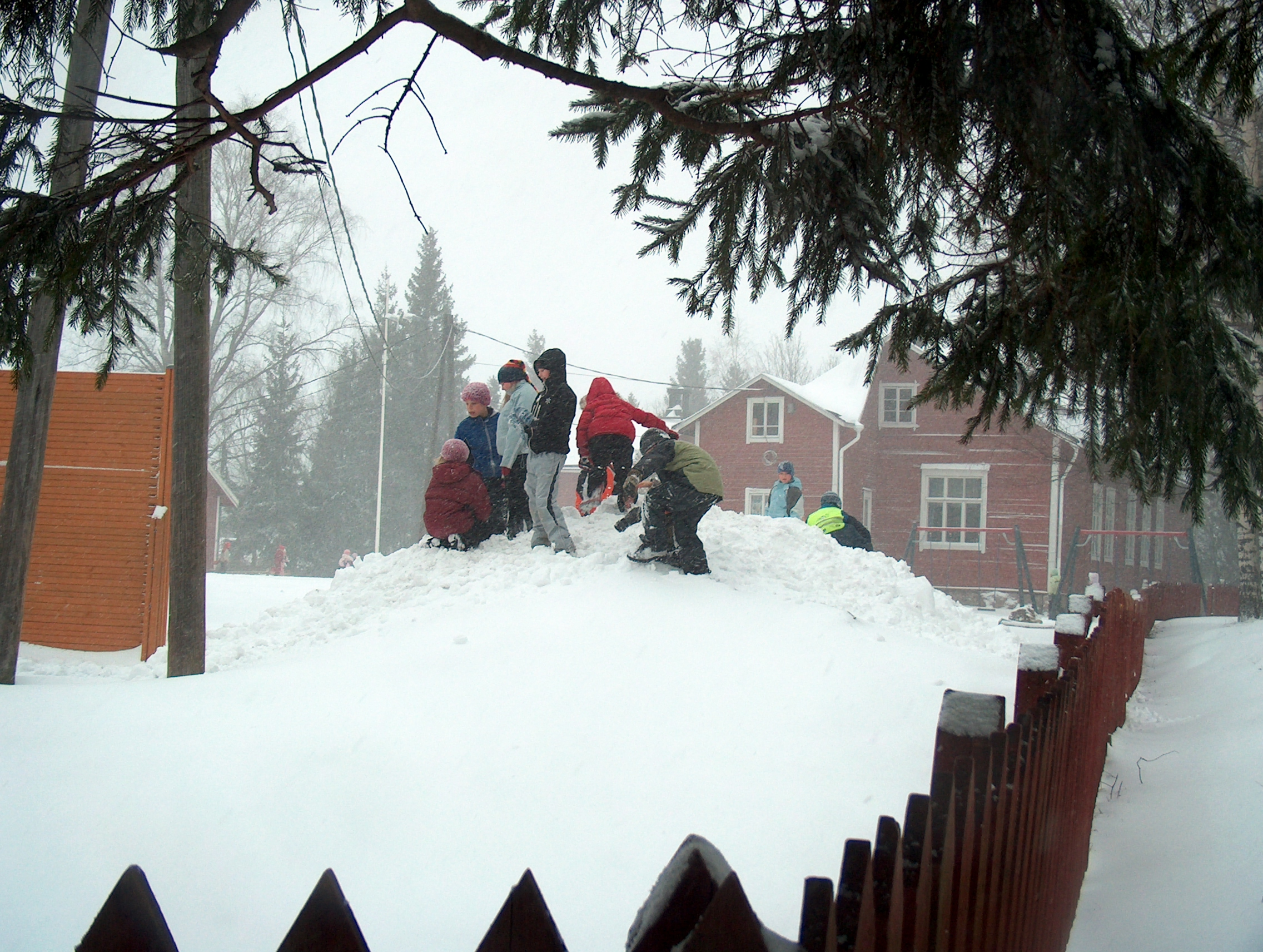 It is snowing but the pupils of Alikerava School are enjoying themselves – Kerava, Finland